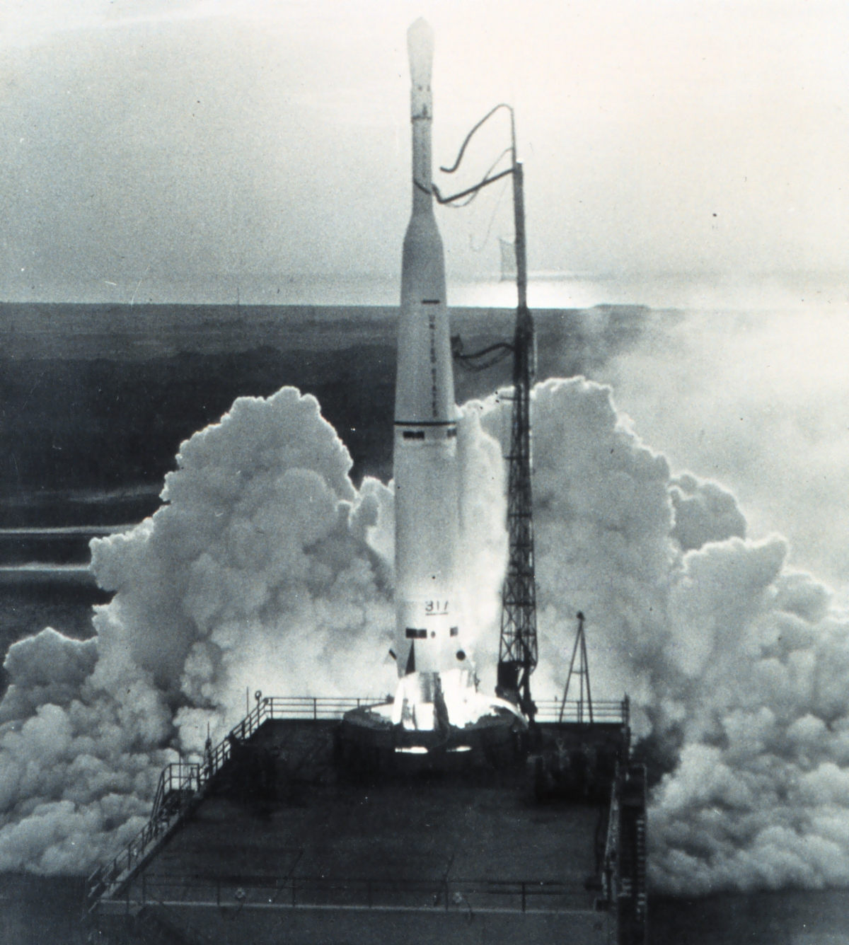 TIROS IV lifting off the pad. Launched by 3-stage Thor Delta rocket #317 the satellite was equipped with two television cameras for photographing cloud cover and with infrared sensors to make measurements of the earth's surface, atmosphere, and cloud tops.